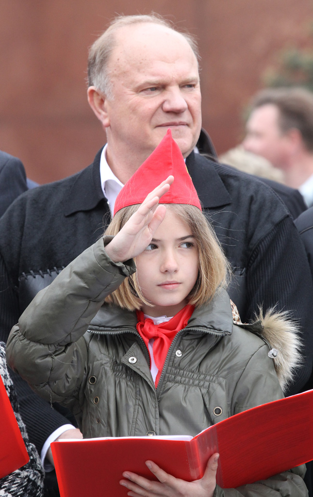 “Young Pioneer induction ceremony held on Moscow's Red Square”. Leader of the Communist Party Gennady Zyuganov and a participant of the Young Pioneer induction ceremony on Moscow's Red Square.